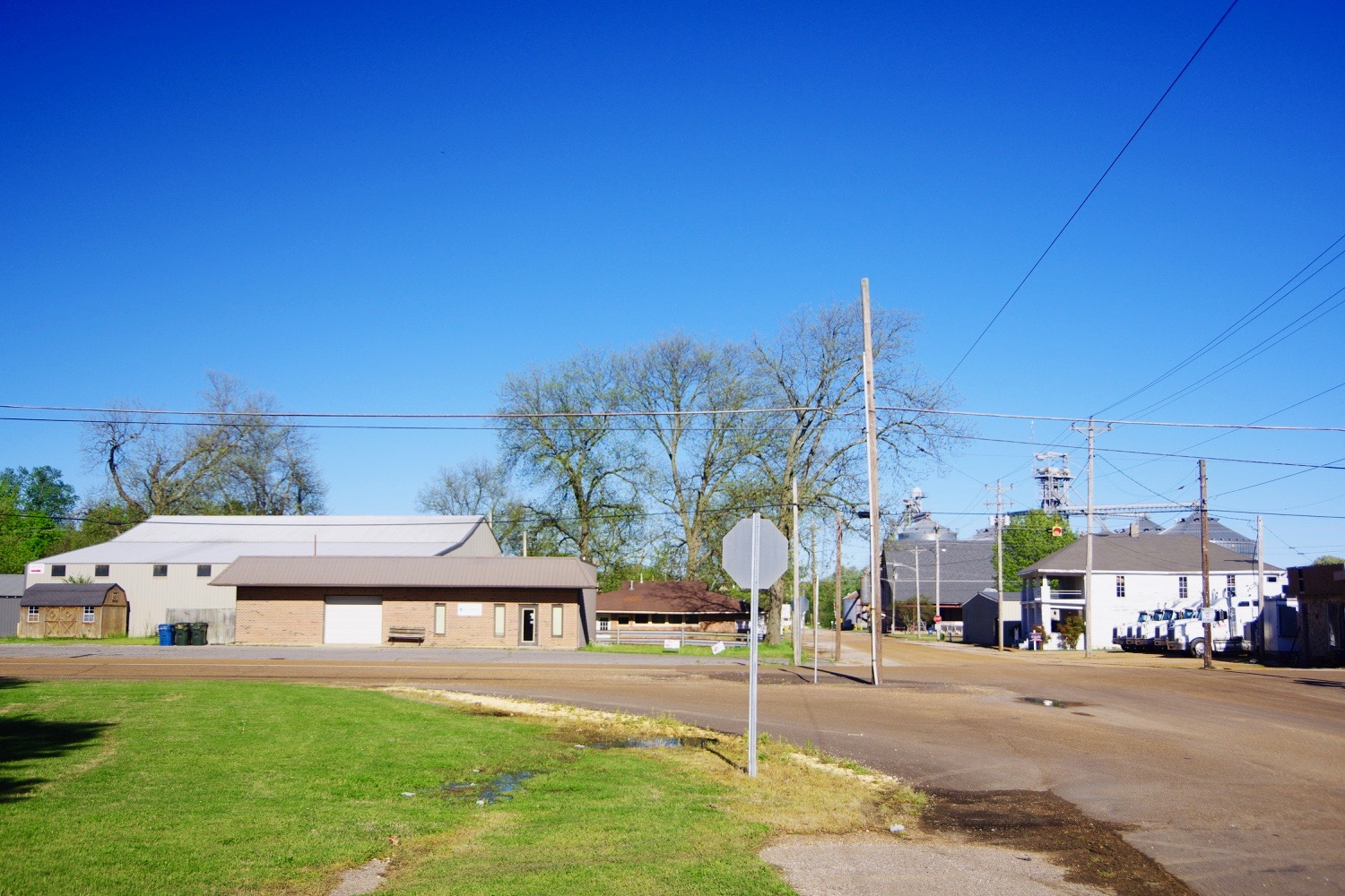 View along State Route 183 (intersection of Seventh and Palestine) in Obion, Tennessee, United States.